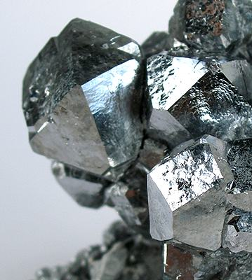 Skutterudite Locality: Bou Azzer, Bou Azzer District, Tazenakht, Ouarzazate Province, Souss-Massa-Draâ Region, Morocco (Locality at ) Size: small cabinet, 6.5 x 6.3 x 4.2 cm Skutterudite This is an absolutely spectacular DISPLAY-QUALITY specimen of skutterudite. The crystals are aesthetically perched high on the matrix and consist of splendent, silver colored, complex forms to 2.0 cm in length. Skutterudite is a somewhat rare, cobalt arsenide. While larger crystals have been found, the color and luster of these cannot be improved upon and this is aesthetically one of the best I have seen form a locality that often produces clunky larger crystals in clunkier, hefty matrix. To have an arborescent cluster on display like this is really phenomenal. It is repaired , and stabilized further with glue in the back to stop the matrix from crumbling (it has some cracks running through it - but they don't visually distract as you can see), hence a lower price for the piece than you might think on first inspection visually. There are even a few milky white quartz crystals, to 1.0 cm in length, emplaced on the matrix for extra effect.